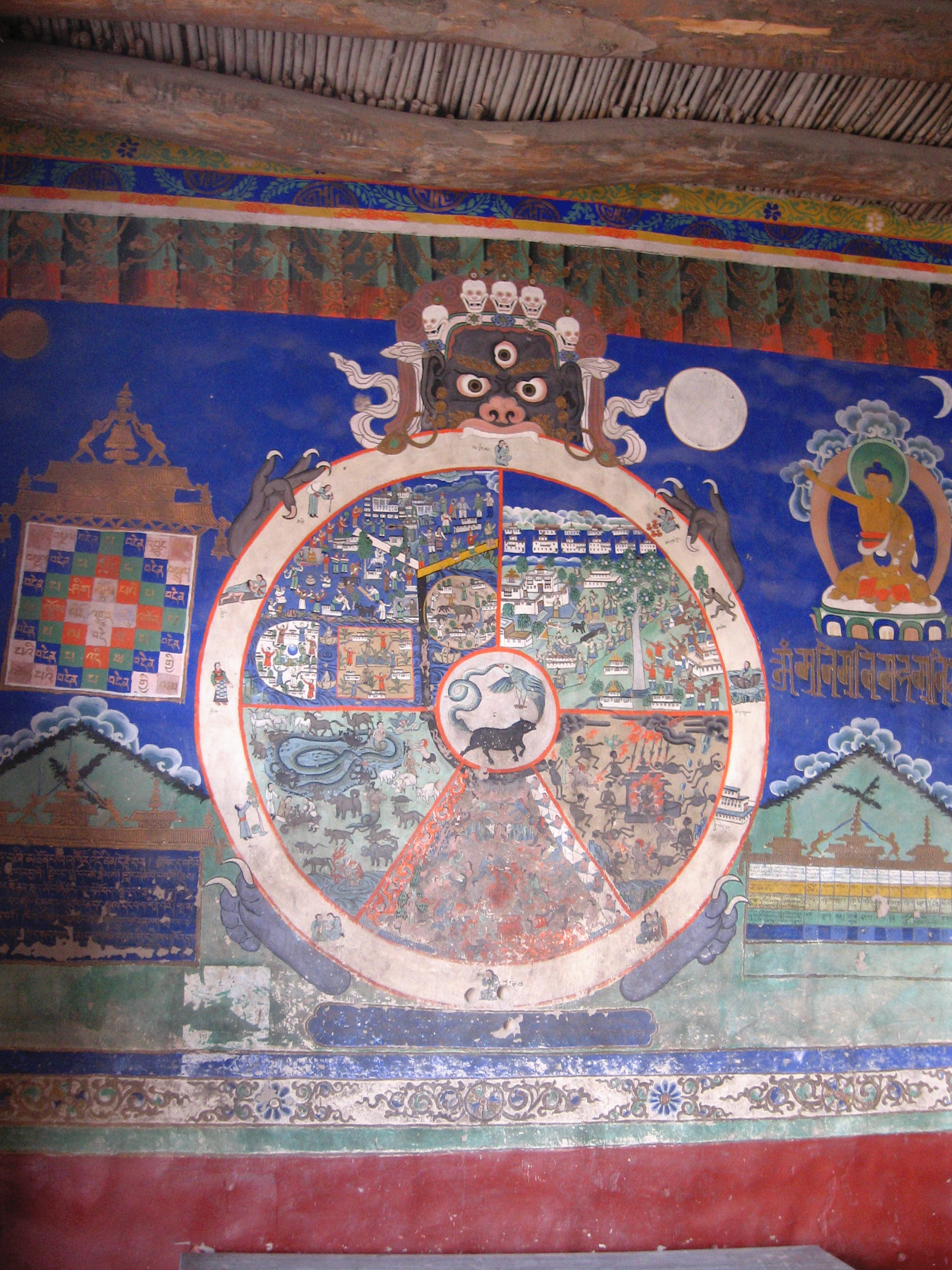 Thikse monastry courtyard, Wheel of life, Bhavacakra